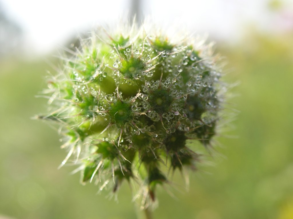 Name: Knautia arvensis, young fruit